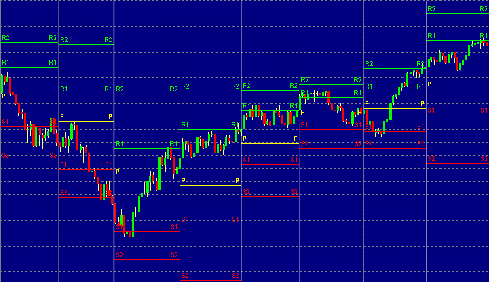 Pivot point chart of the Dow Jones Industrials average for first 8 months of 2009, showing first and second sets of resistance and support levels.